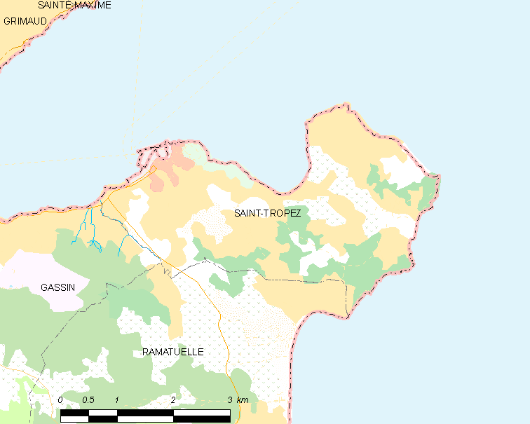 Map of French municipality Saint-Tropez